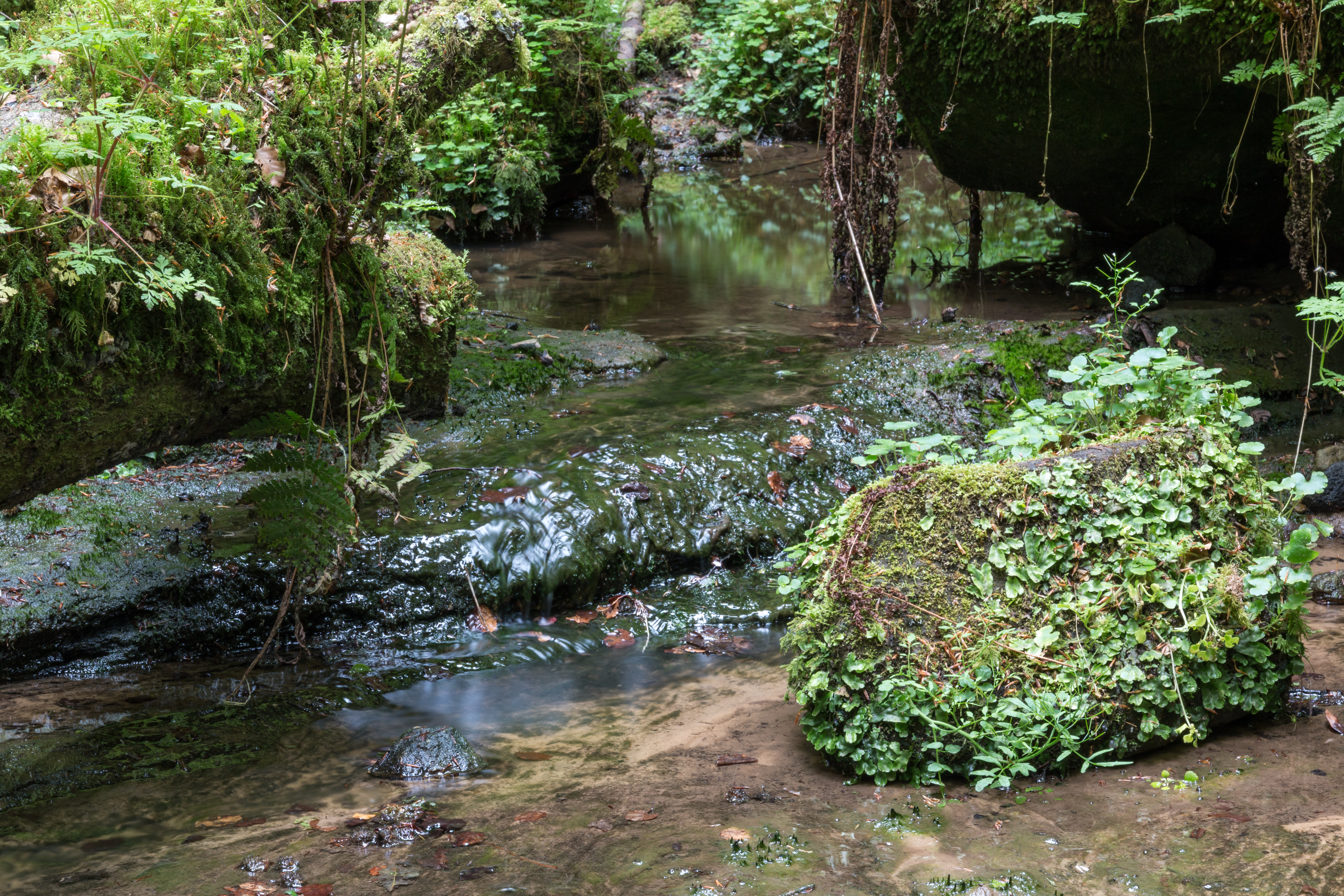 Aesbachtal near Berdorf, Luxembourg